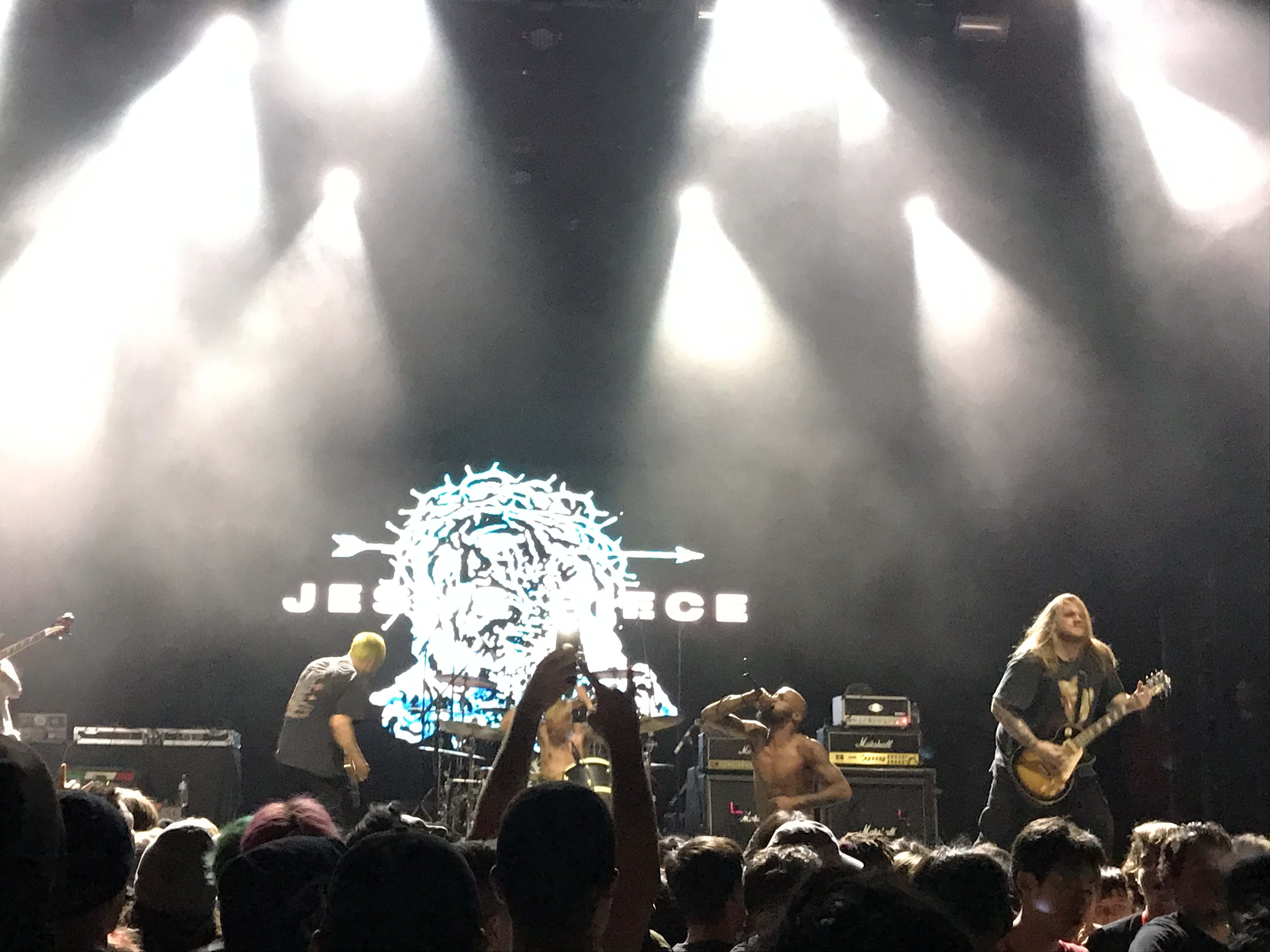 Jesus Piece performing live at the Novo in Los Angeles, California